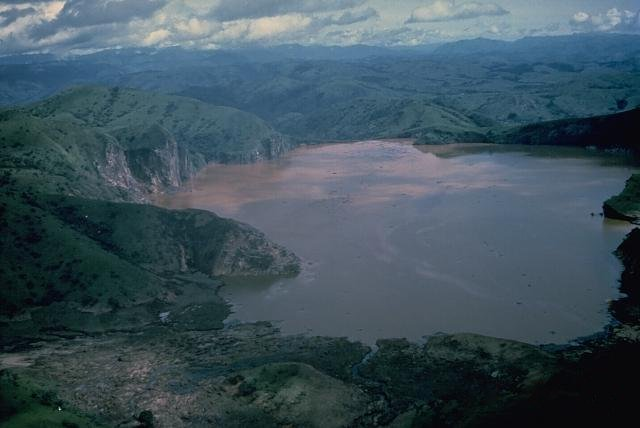 Lake Nyos is the most renowned of the numerous maars and basaltic cinder cones associated with the deeply dissected Mount Oku massif.